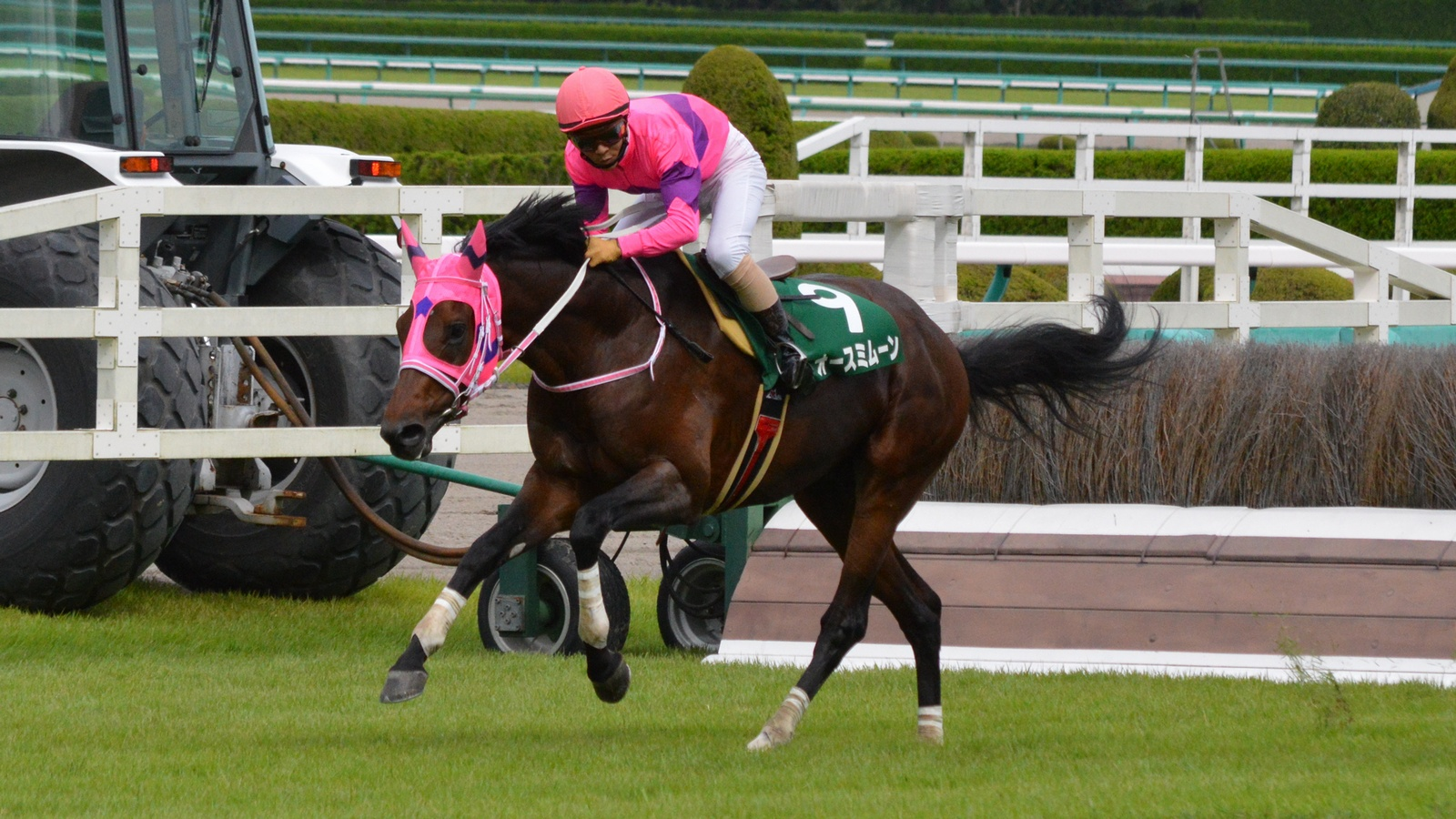 Japanese race horse Osumi Moon at Hanshin racecourse.